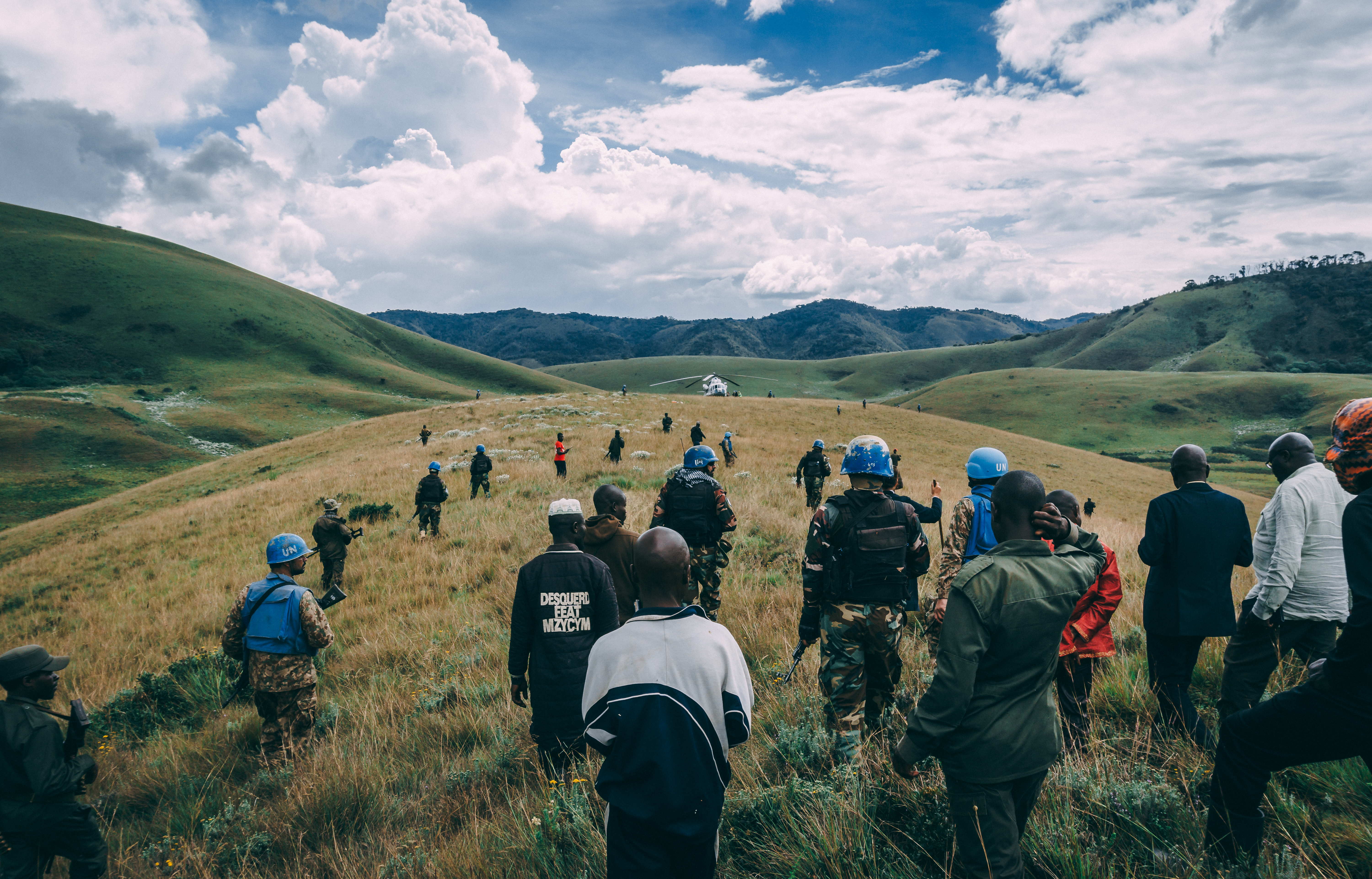 Fizi, South Kivu, DR Congo - MONUSCO Child Protection Section, assisted by DDRRR Department, got Yakutumba, the rebel leader of the "People’s National Coalition for DRC’s Sovereignty (CNPSC) to sign a roadmap and a declaration pledging he should no longer recruit or use children in his armed group. Here, MONUSCO delegation waiting to board UN helicopter at the end of the mission. Photo MONUSCO / Jacob of Lange